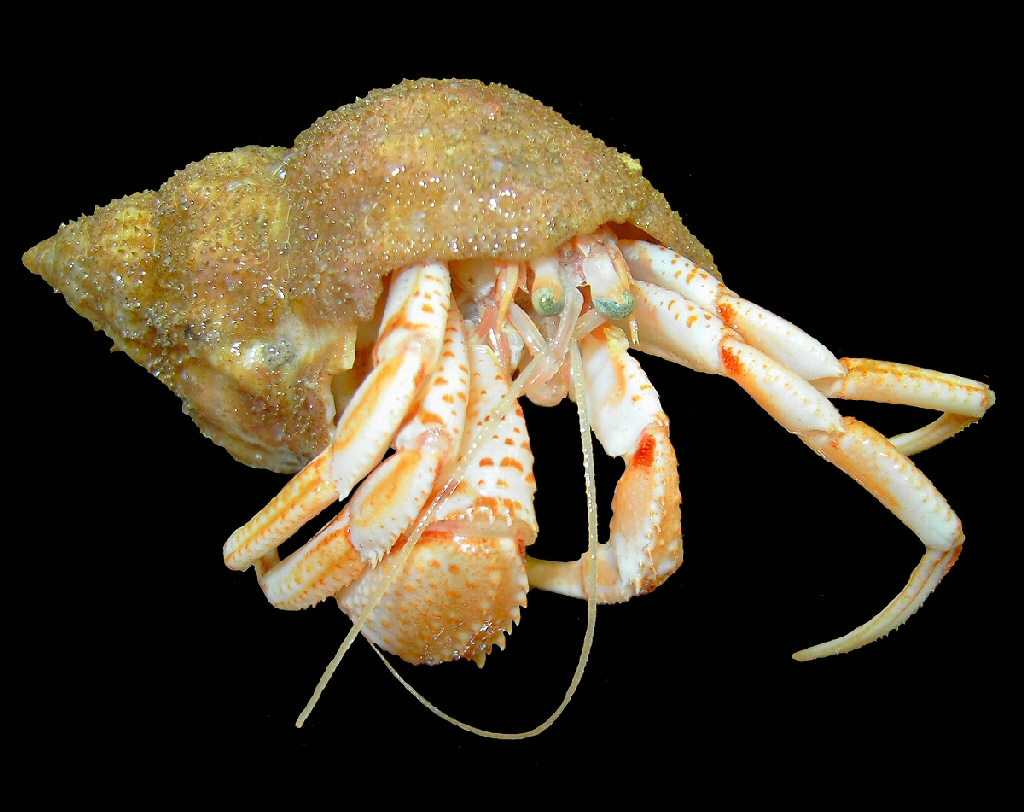 Hermit crab, Belgium